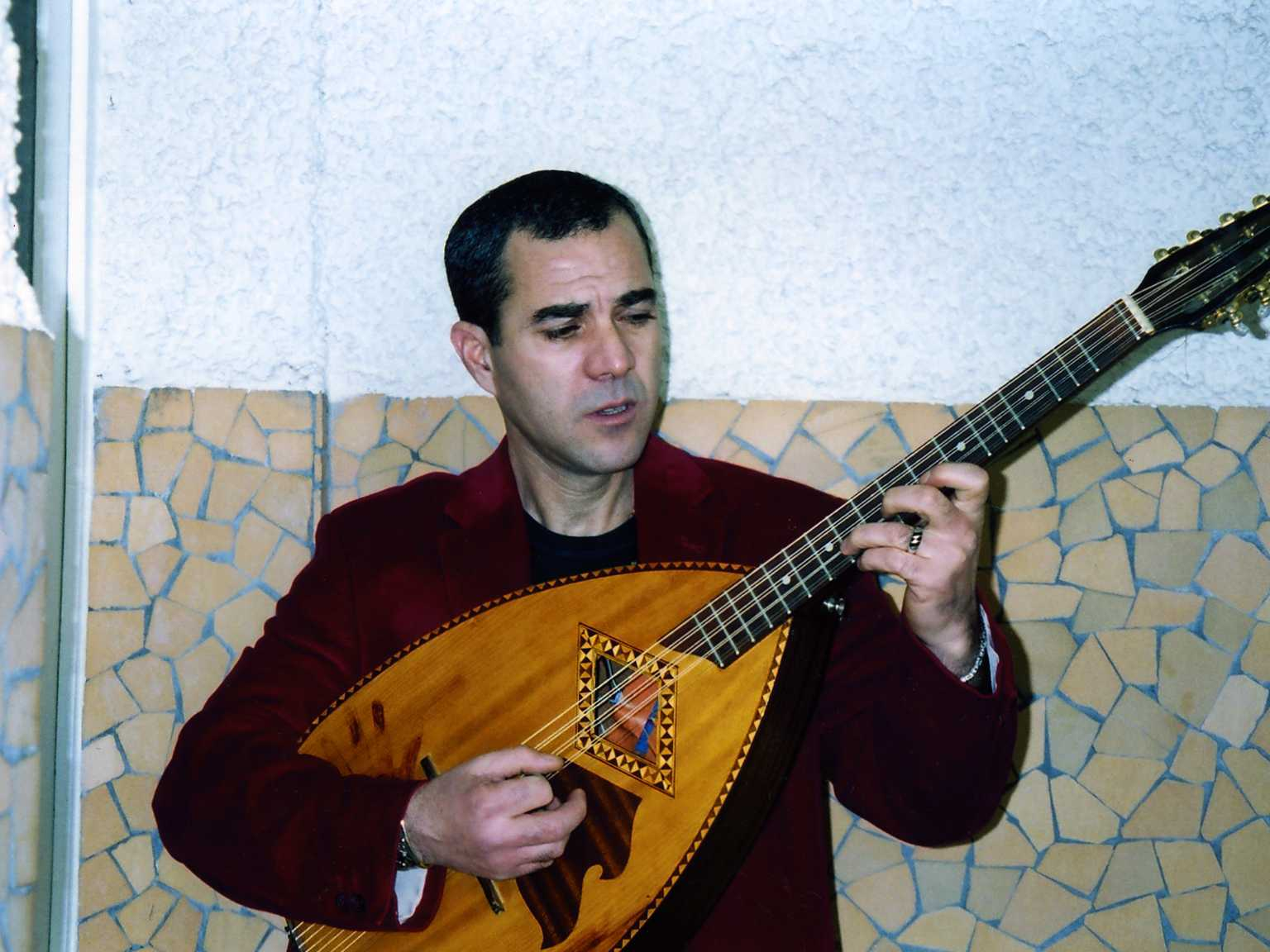 Karim tizouiar 2010, playing an Algerian mandole.